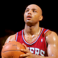 Philadelphia 76ers Charles Barkley 1991